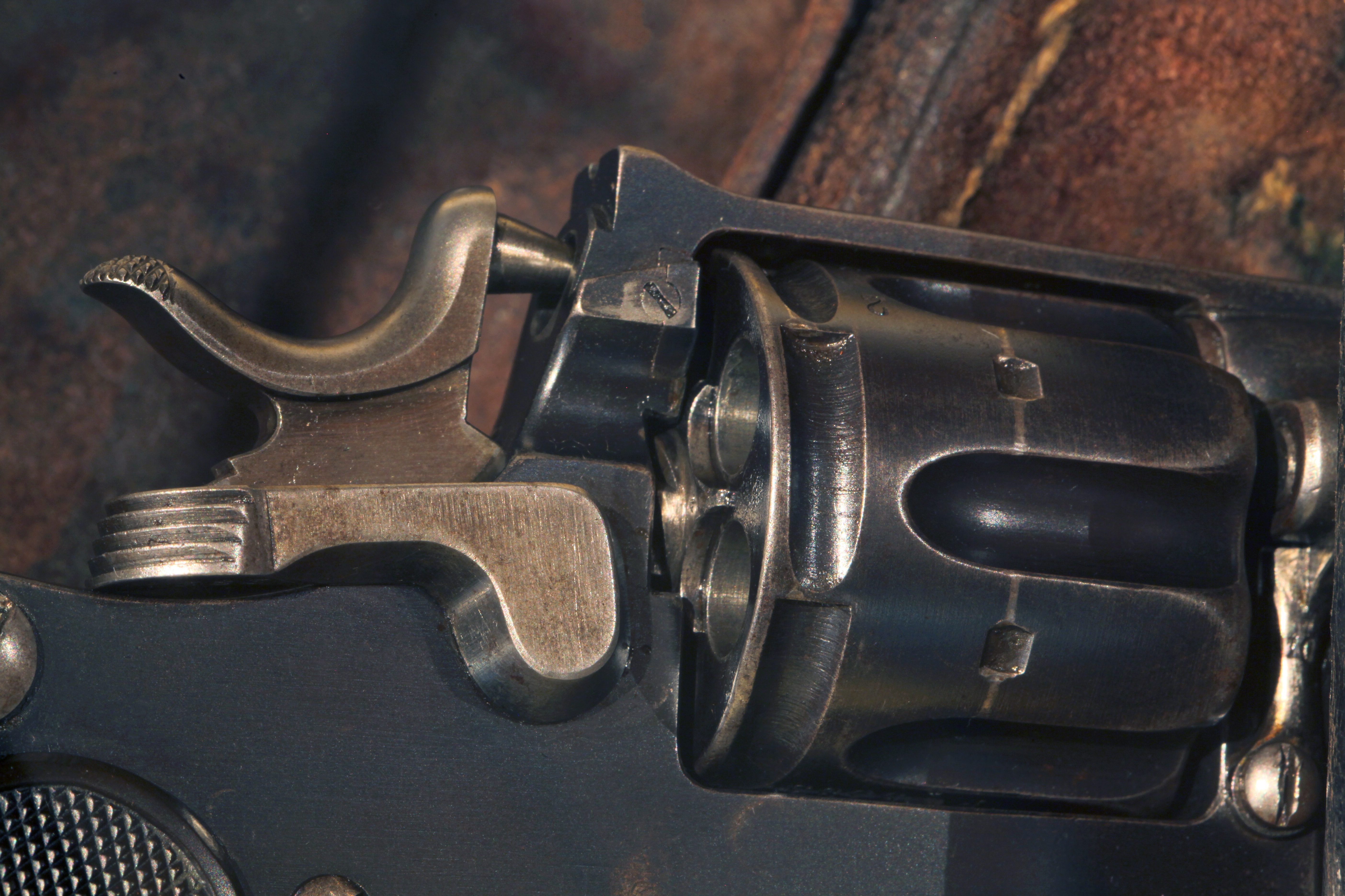 Schmidt M1882. On display at Morges military museum.